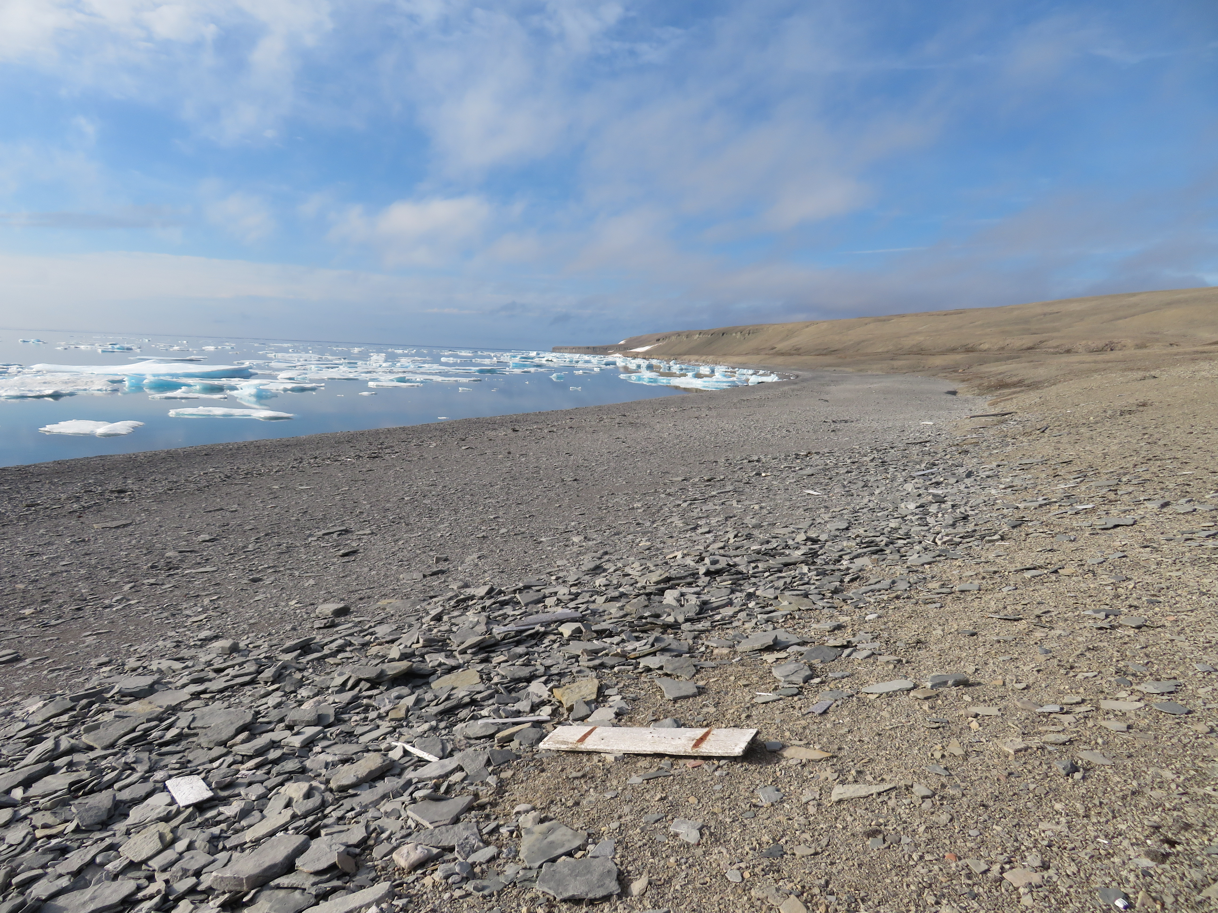 Fury Beach - still littered with wooden & metal material, presumably/possibly from stores and packaging and building materials from HMS Fury.